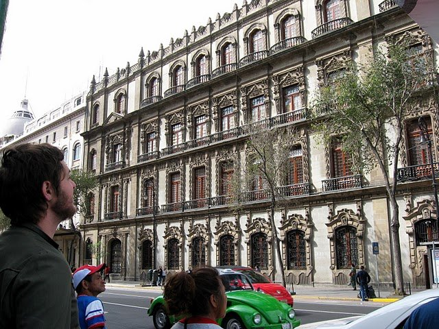 Old building in Mexico City